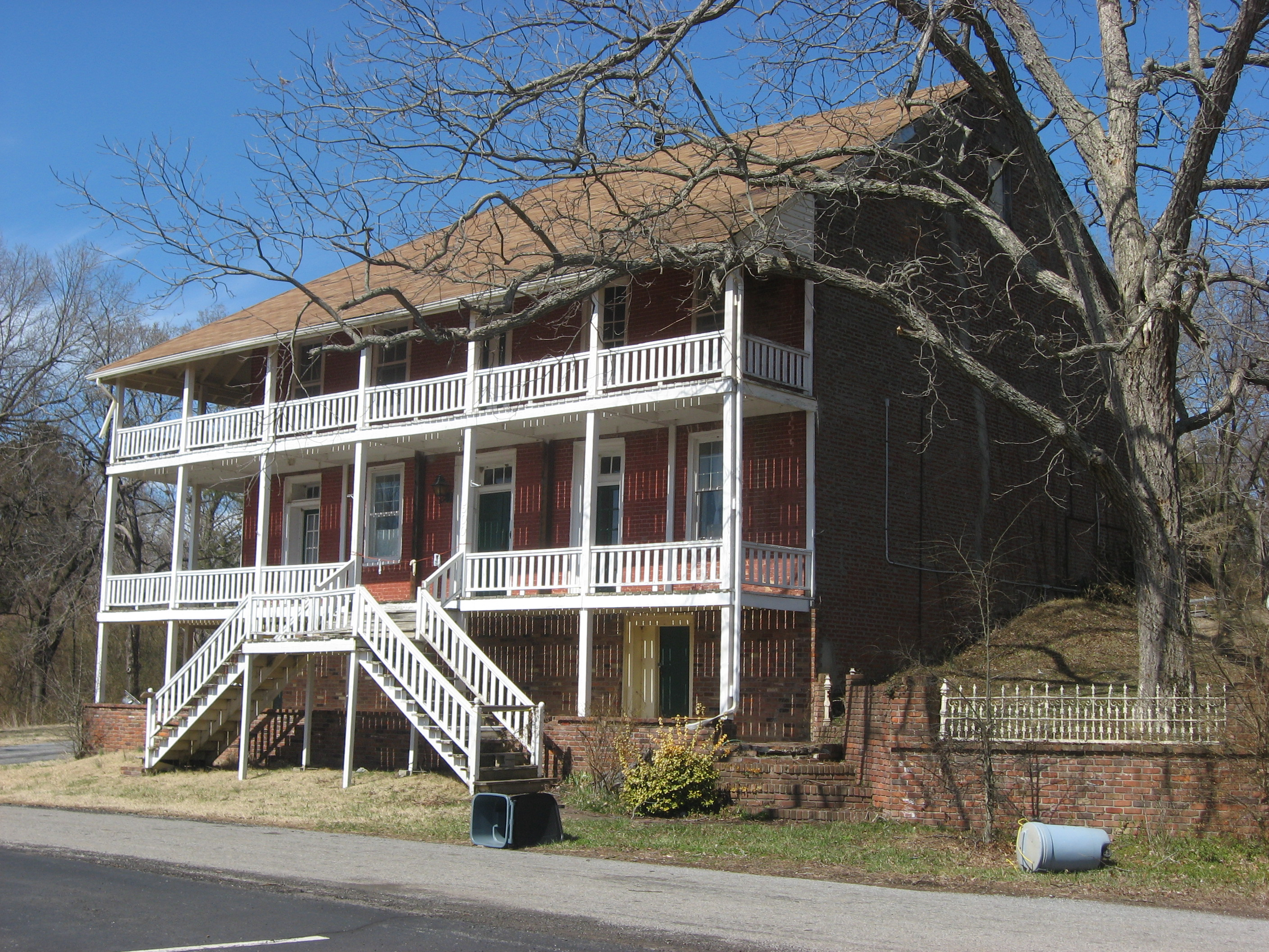 Eastern side and front of the Brick Inn, located near the foot of Boyds Landing Road in Canton, Kentucky, United States. Built in 1819, it is listed on the National Register of Historic Places.